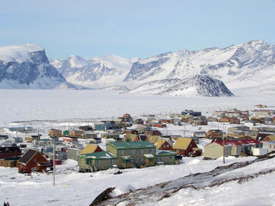 by Technicalglitch